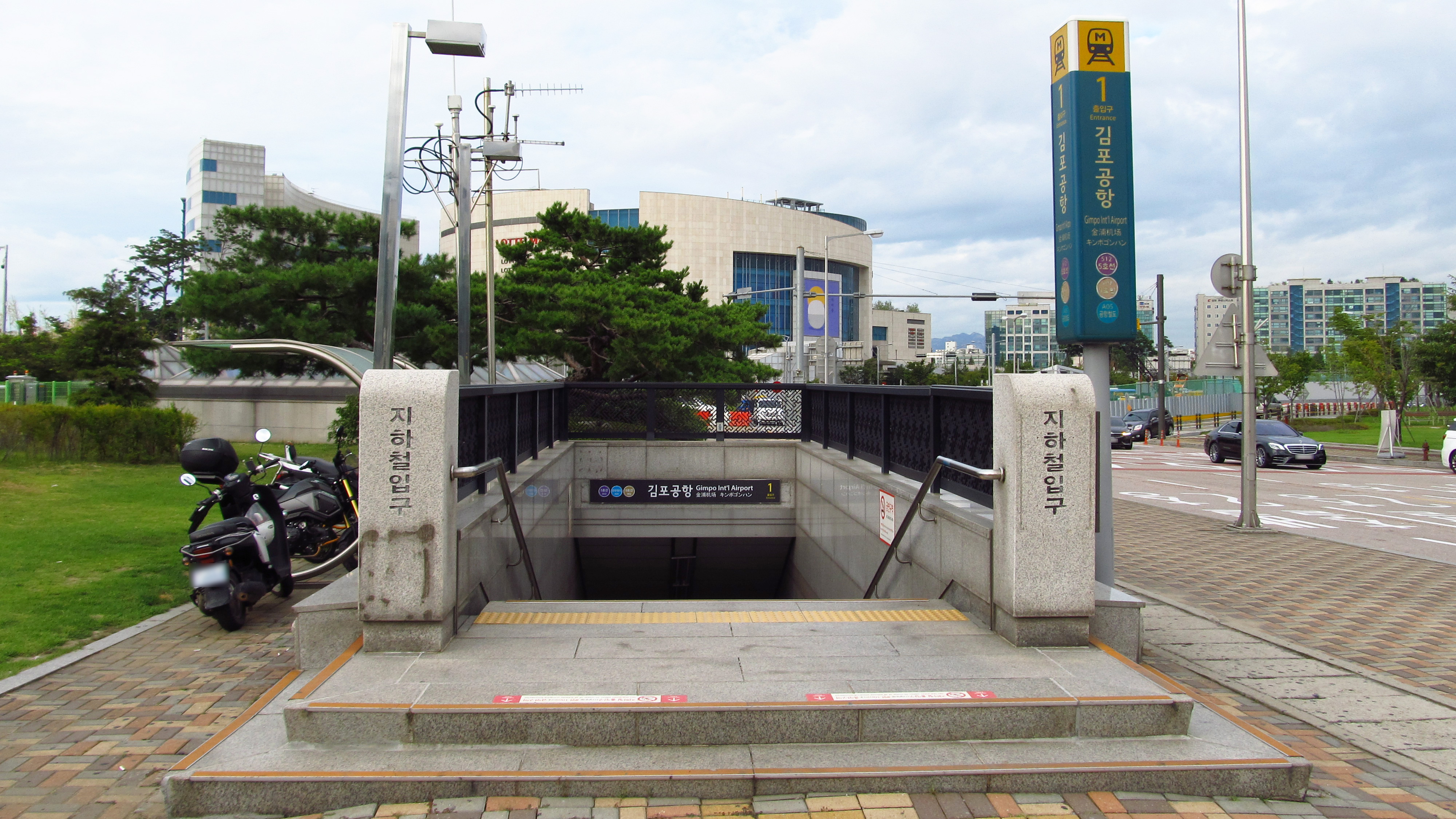 The no.1 entrance to Gimpo International Airport Station on the Seoul Metro Line 5, AREX, Seoul Metro Line 9 in Gangseo-gu, Seoul, Republic of Korea(South Korea)